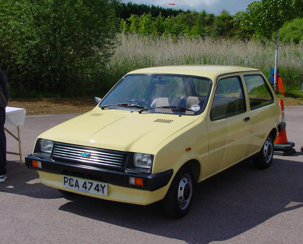 May 1983 yellow Austin Metro 1.0. Metro 30th Anniversary at Heritage Motor Centre, Gaydon, UK